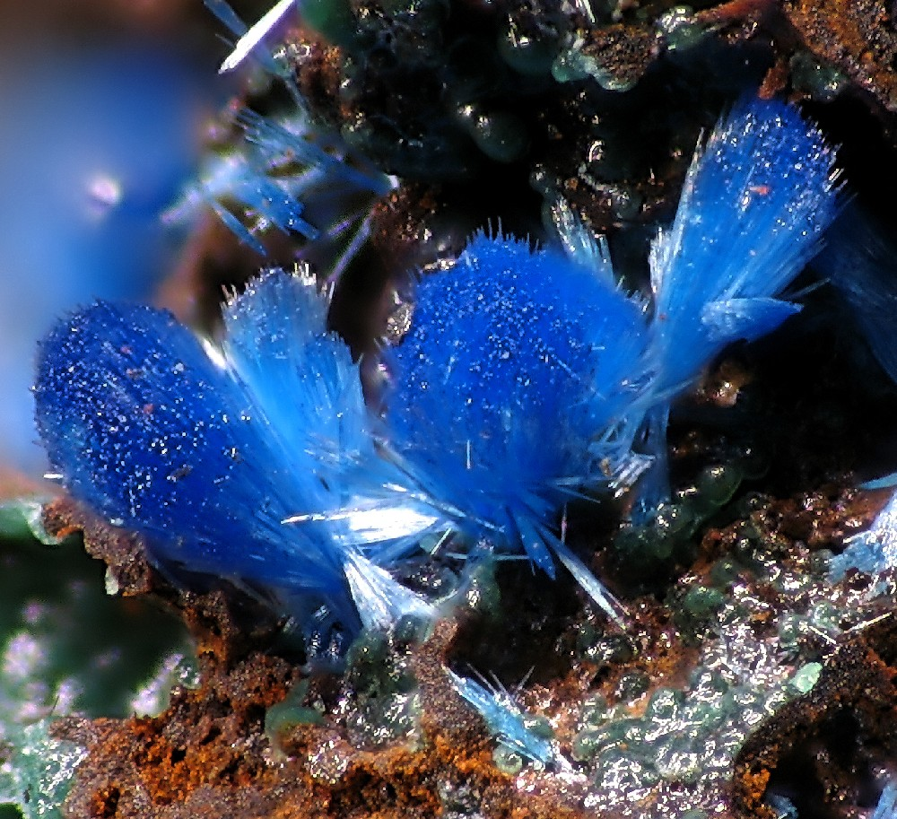 Schmiederite Locality: El Dragón mine, Antonio Quijarro Province, Potosí Department, Bolivia (Locality at ) Picture width 2 mm. Collection and photograph Christian Rewitzer